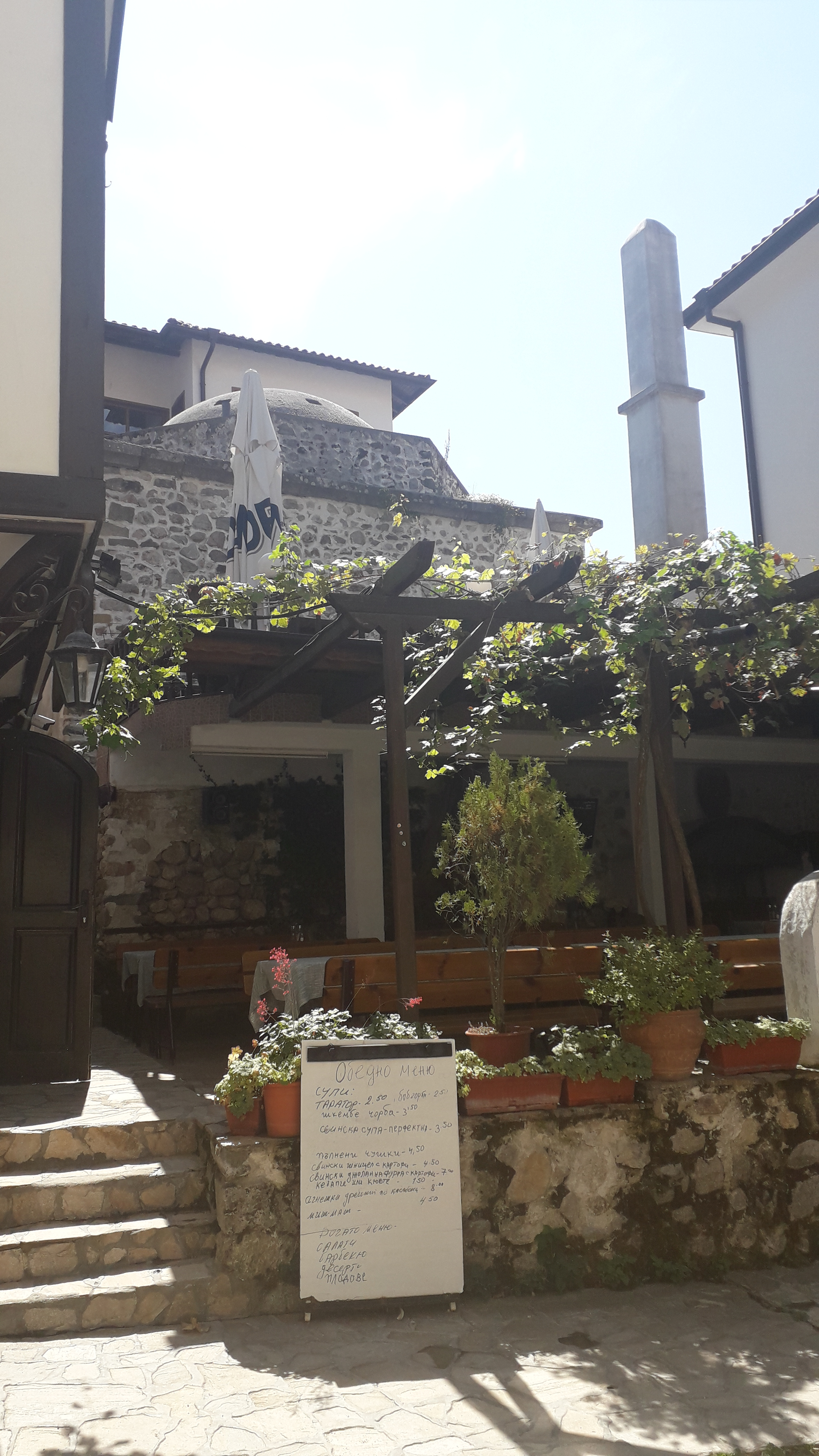 Turkish hammam, Melnik